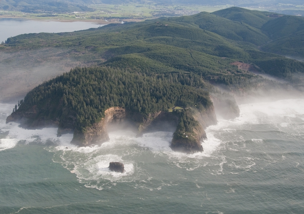 An aerial view shows surf hitting the rocky cliffs of Cape Meares National Wildlife Refuge and Oregon scenic viewpoint. (Roy W. Lowe/USFWS)